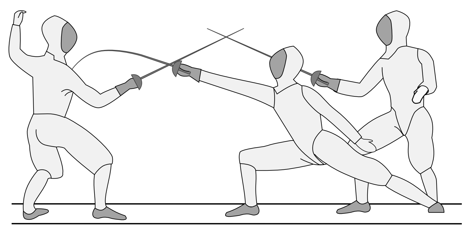 A picture showing a fencer in a plunge and en garde, giving the idea of how much more reach you can get by plunging. Made by Ningyou.